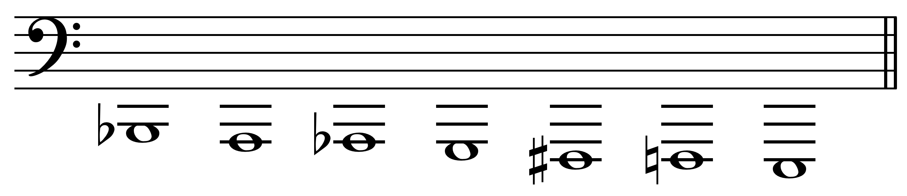 Trombone slide position "pedal tones". Created by Hyacinth (talk) using Sibelius 5. GFDL-self